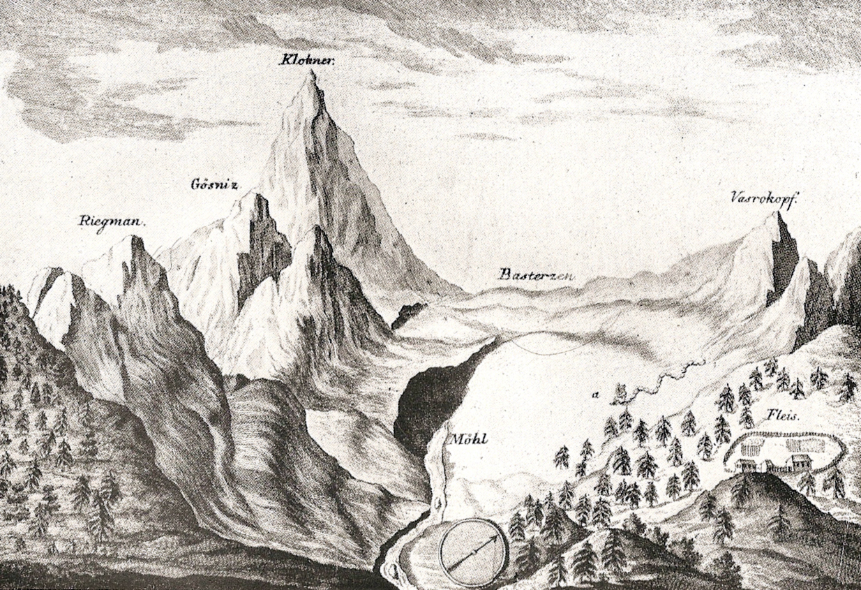 Großglockner by Belsazar Hacquet. First known picture of this mountain